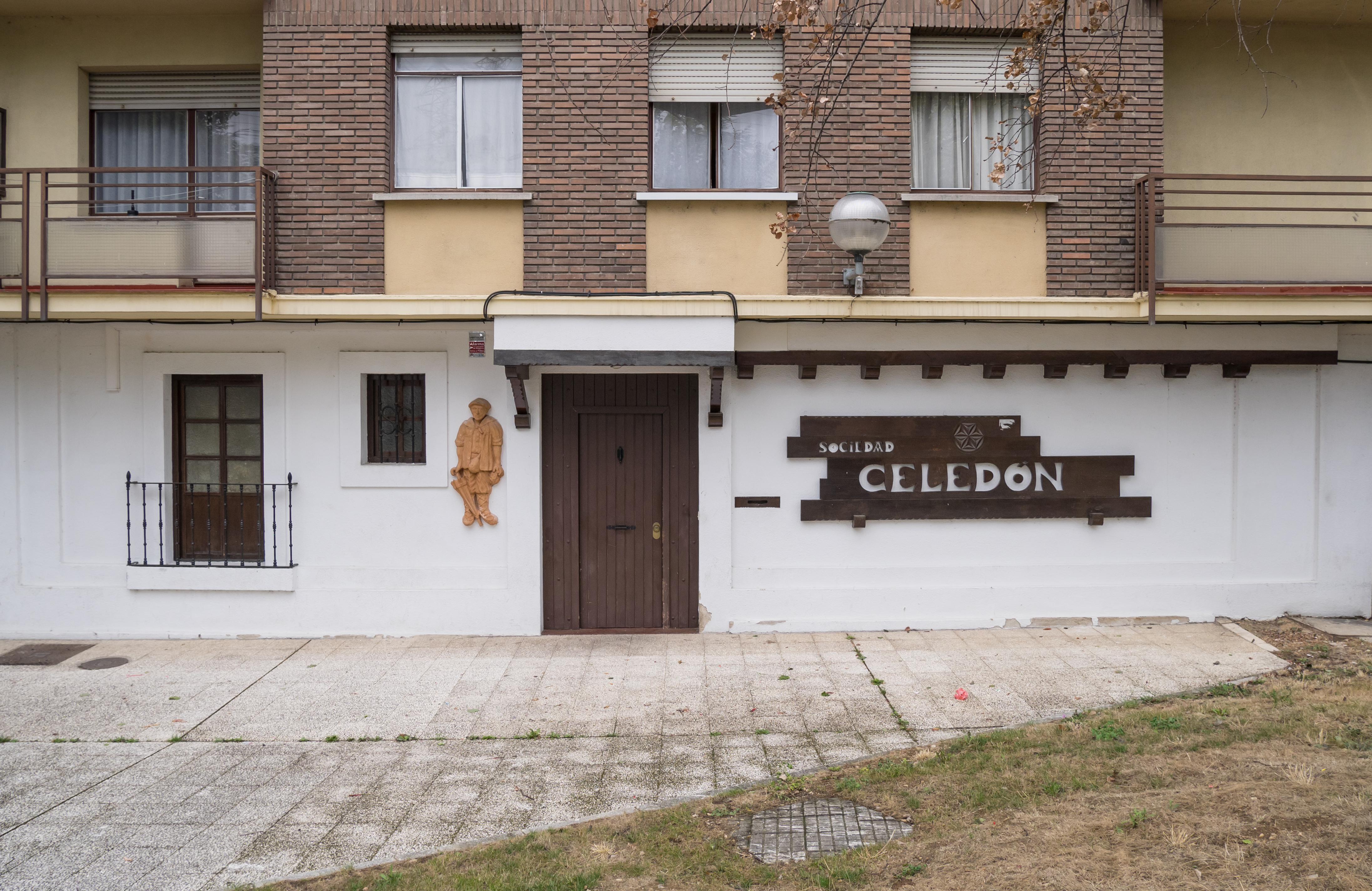 Gastonomic society "Celedón" in Vitoria-Gasteiz. Basque Country, Spain